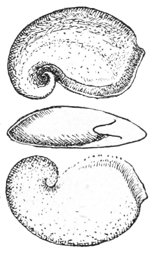 Drawing of the apical, apertural and basal view of the fossil of Pelagiella atlantoides - synonym: Cyrtolithes atlantoides.